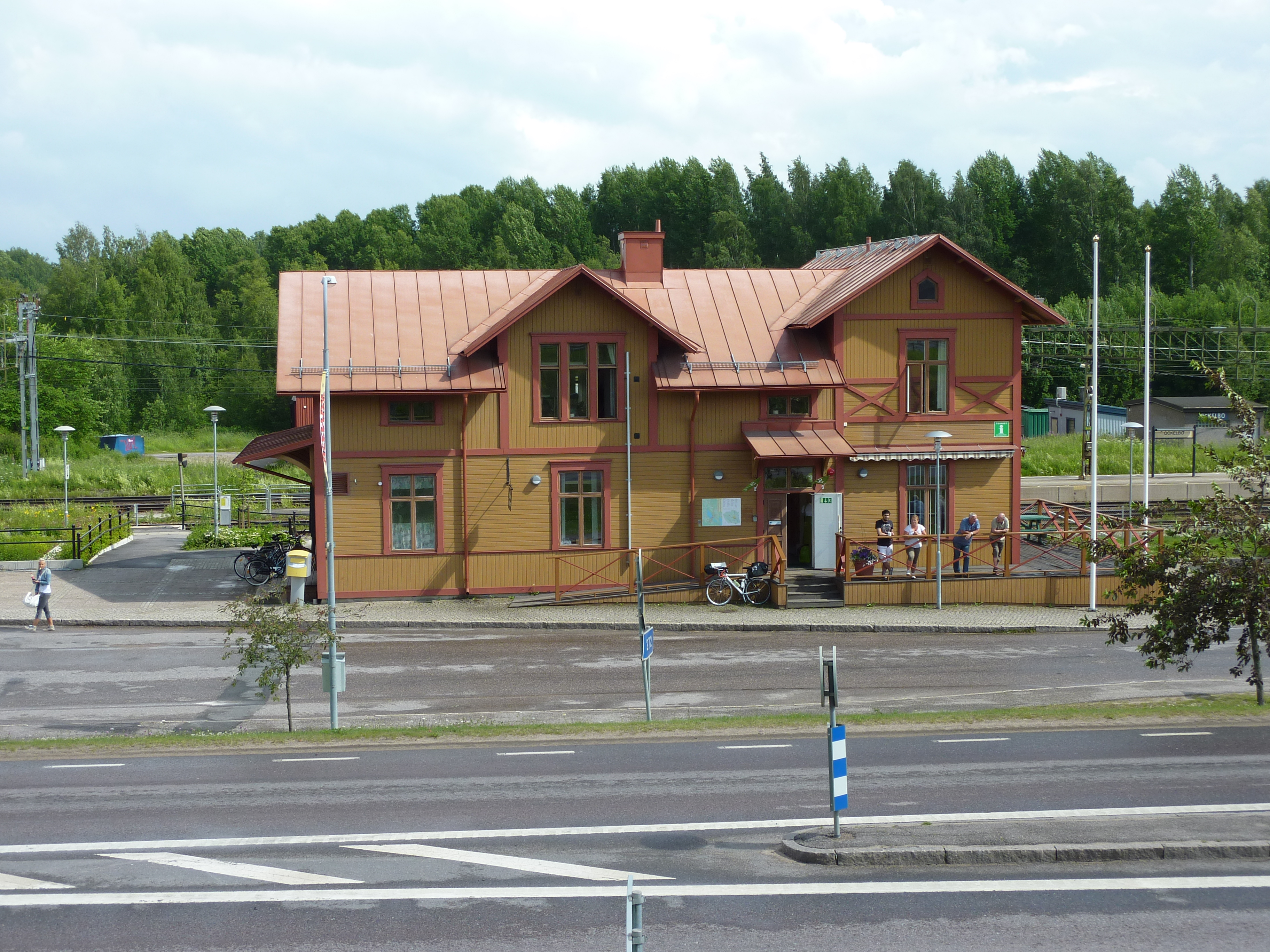 Railway station Ockelbo in Sweden. Located north-west of Gävle. Swedish county road 272 is in front of this image.